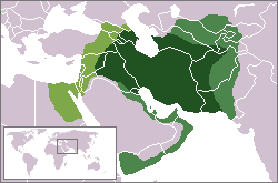 Sassanid Empire at its greatest extent. ca. 620 CE: lighter: vassal territories; more yellow: 620 conquest against Byz. Empire